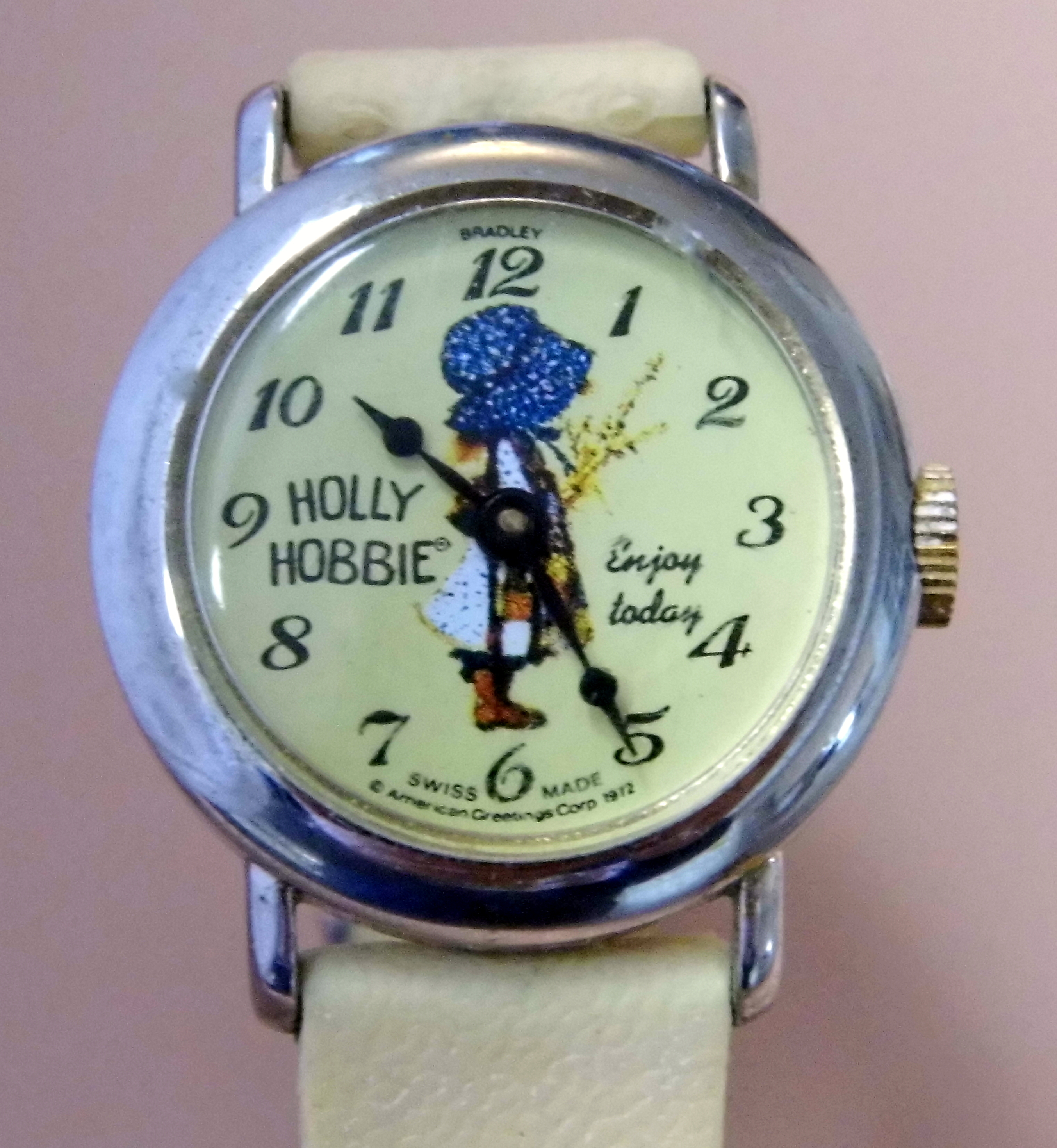 Vintage Character Watch (Manual Wind) - Holly Hobbie By Bradley Time, Swiss Made, Copyright 1972 By American Greetings Corp.